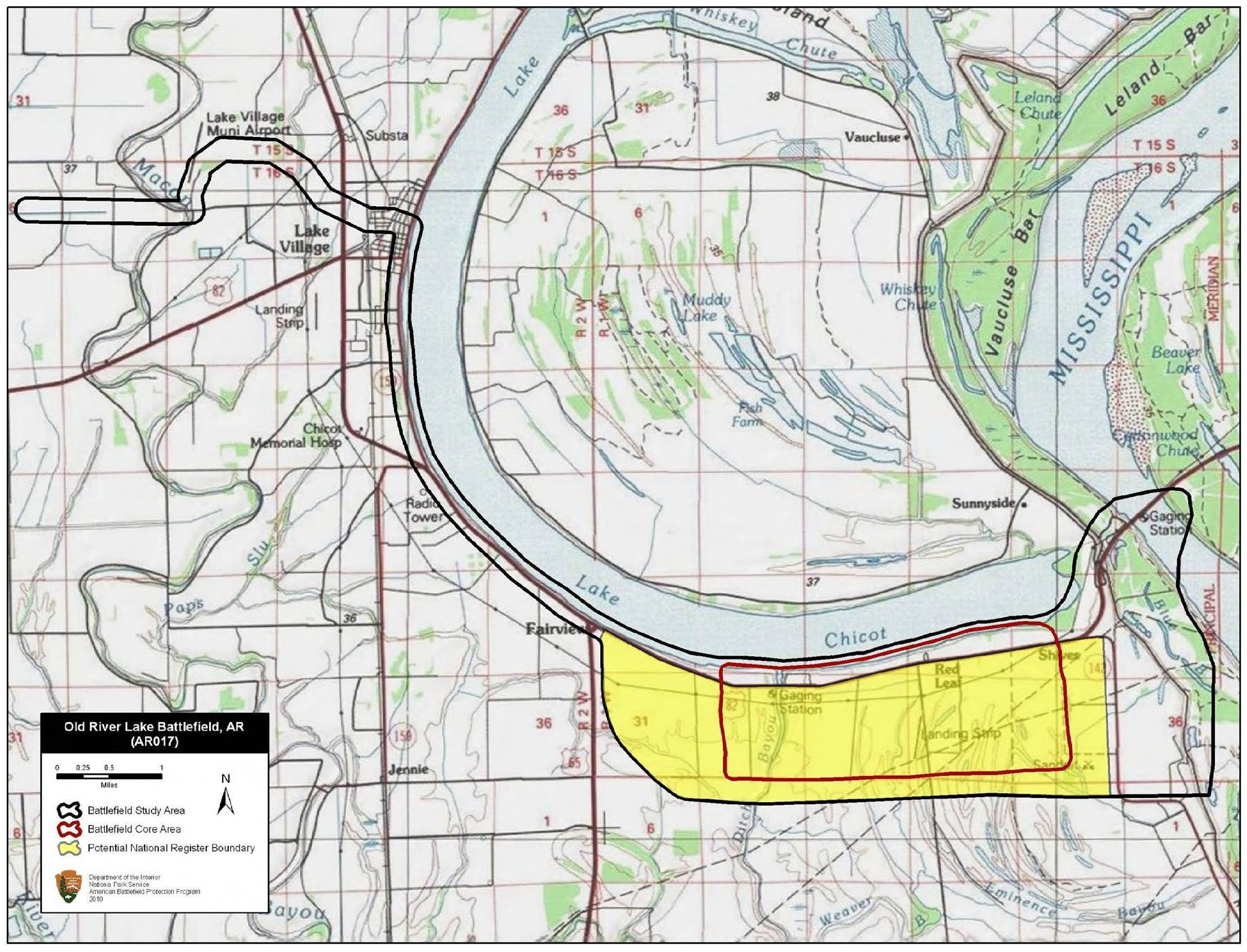 Map of battlefield core and study areas. The 1993 Study Area was modified to reflect the position of the Mississippi River circa 1864, the correct location of Sunnyside Landing (the Federal point of debarkation and encampment), troop movements, and avenues of approach and withdrawal. The Core Area was narrowed slightly to better represent the positions of the opposing battle lines.